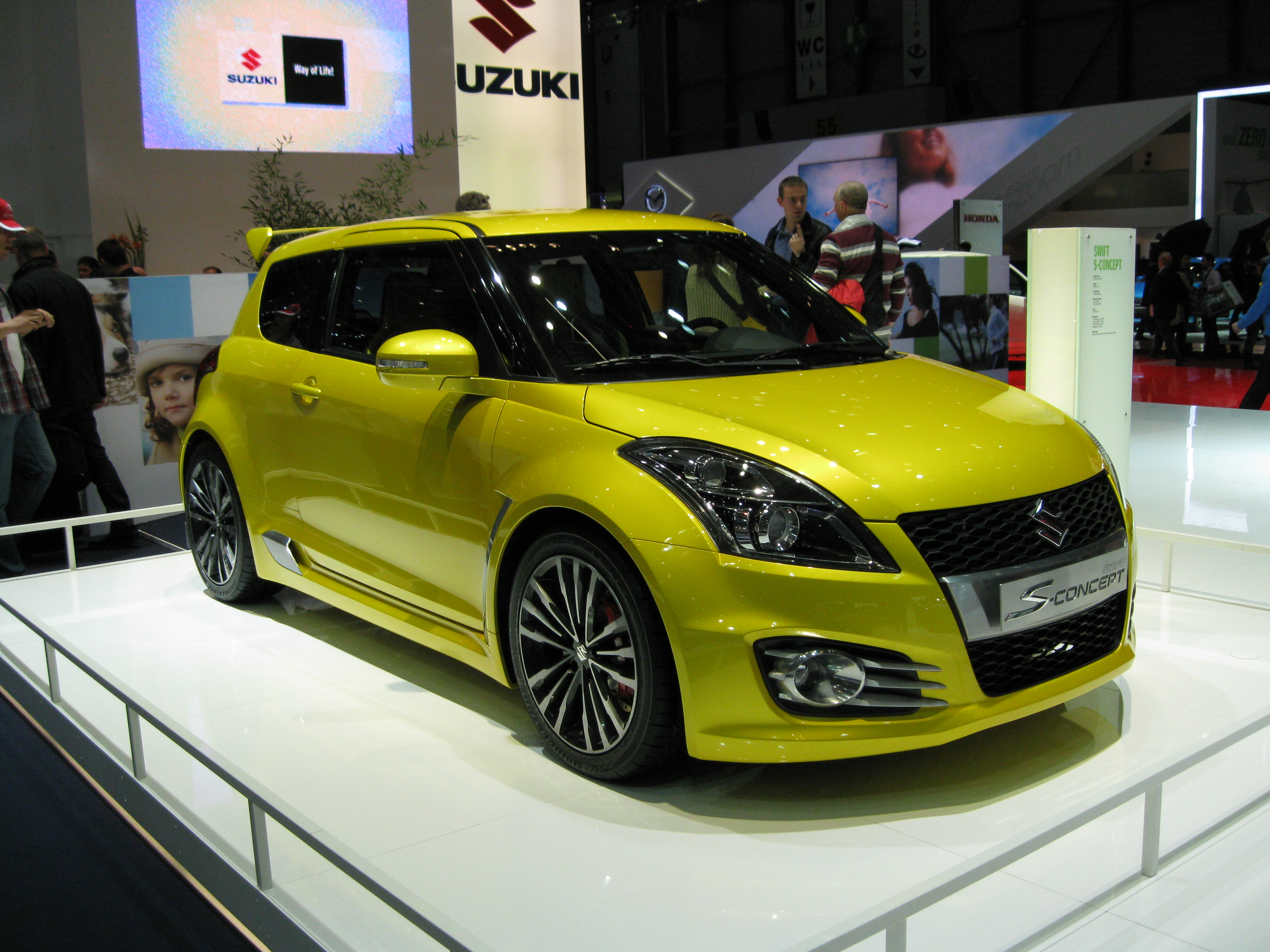 Geneva Motor Show 2011